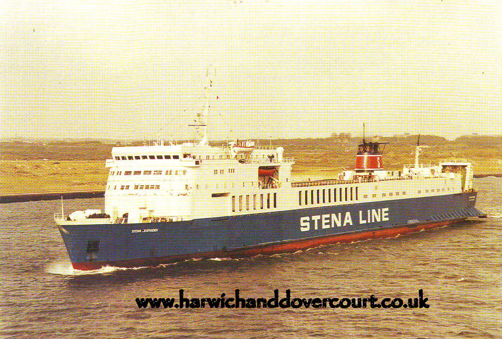 Built. 1973 Yard. Nakskov Skibsværft, Denmark Class of Ship. Cargo Operator. Stena Line Route. Harwich-Hook of Holland 1990-2008 Length. 148, 01 m Gross Tonnage. 5,159 Passengers. 36 Speed. 17.5 Knots Former Name. Svealand Status. Scrapped 2012 Seatrade (2008-2011), Stena Seatrader (1990-2008), Svea Link (1987-1990) Svealand av Malmö (1982-1987), Svealand (1973-1982) The Stena Seatrader was built for Lion Ferry and was launched at the 10th of January 1973 under the name. She started sailing the Trelleborg to Sassnitz route from September 1973 onwards. In 1982, the ship was lengthened at the Howaldtswerke Deutsche Werft in Hamburg, Western Germany, by 34 meters and her tonnage was increased from 5160 tons to 6962 tons. Also, more passenger accommodation was added. She could now carry 100 passengers, mostly lorry drivers. From 1982 on, she sailed the Travemünde to Malmo route for Rederi AB Nordo. In 1987 she was renamed Svea Link and in 1997 the ship was sold to Stena Line for the route between Hoek van Holland and Harwich. She was Scrapped in India 14/1/2012